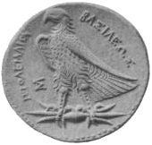 Image of ancient Hellenistic Egyptian coin inscribed King Ptolomey (BASILEOS PTOLOMAION) in Principal Gold and Silver Coin of the Ancients by Barclay C. Head. Showing the Eagle of Zeus holding a thunderbolt